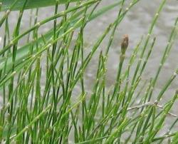 Equisetum bogotense (crop) Andean horsetail